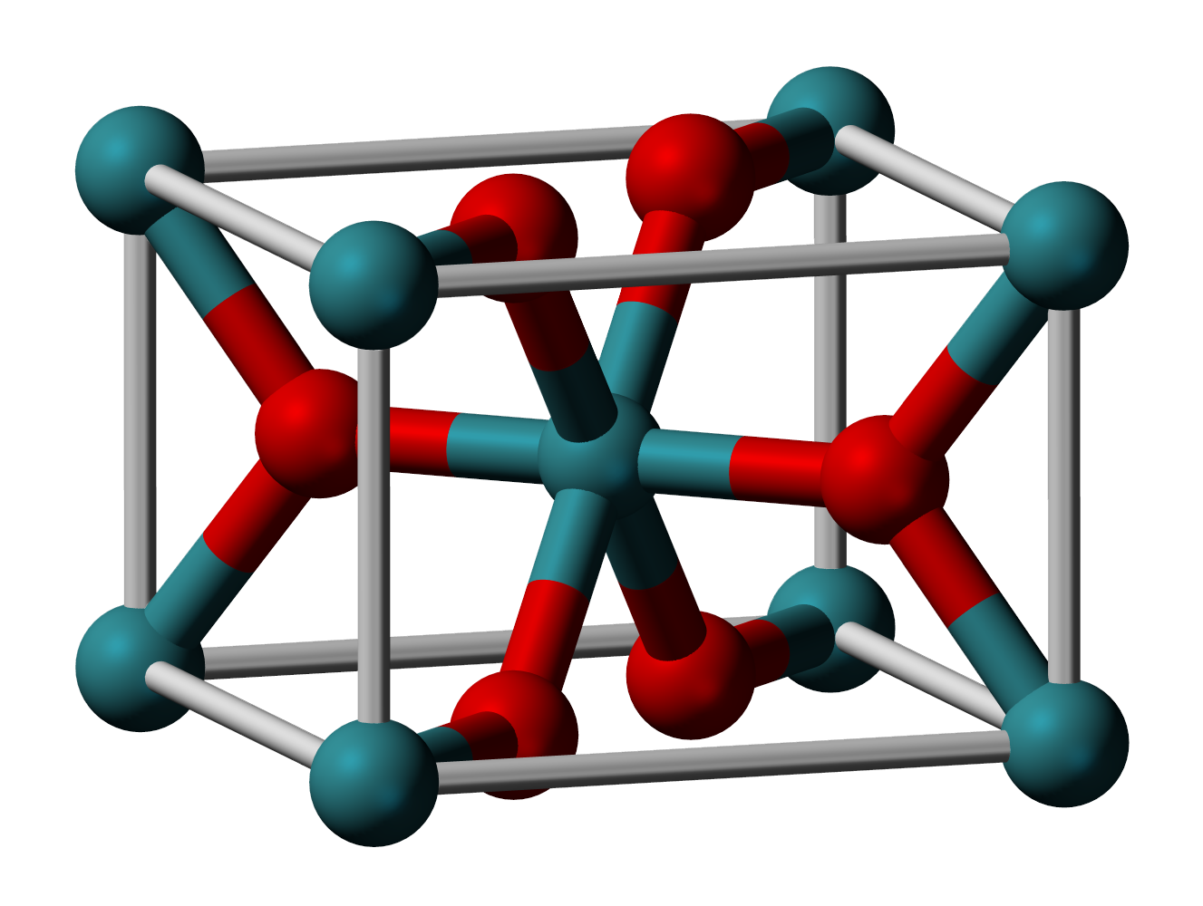 Ball-and-stick model of the unit cell of ruthenium(IV) oxide, RuO2. Structural data from the CrystalMaker 8.1 structure library, originally from Baur W H, Khan A A Acta Crystallographica B27 (1971) 2133-2139.